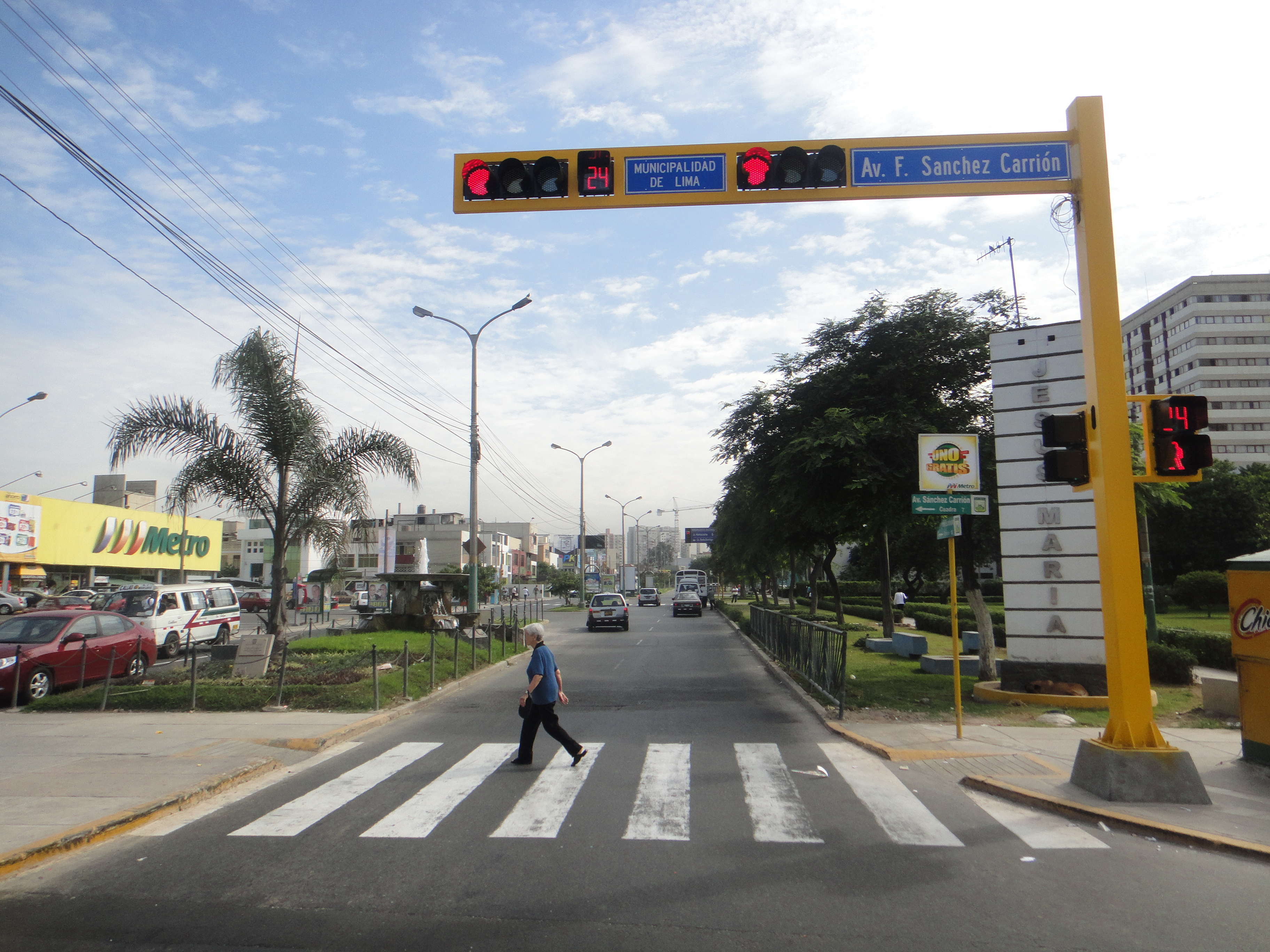 Gregorio Escobedo Ave. and Residencial San Felipe in Jesús María District, Lima-Peru.